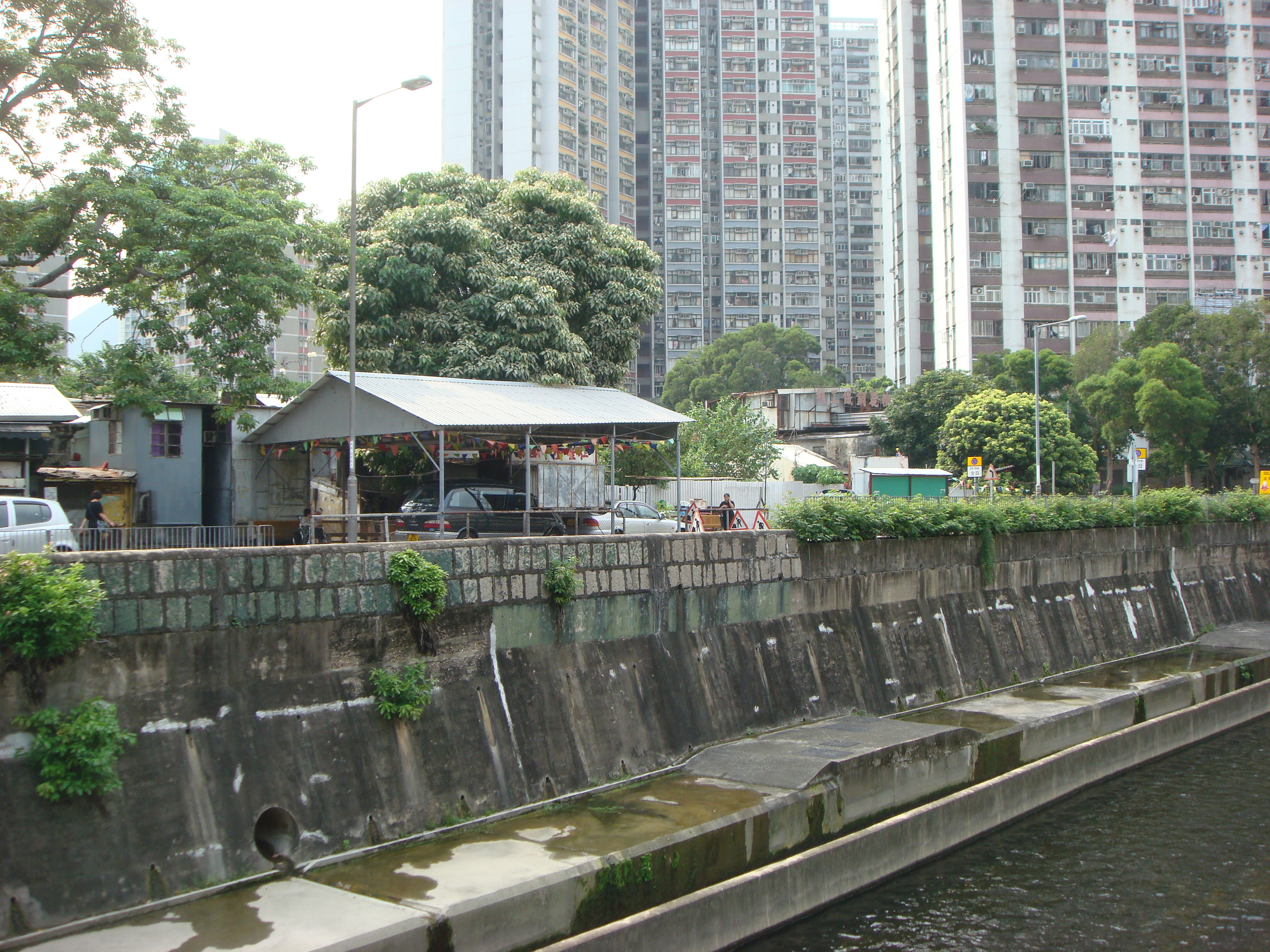 Nga Tsin Wai Tsuen, Wong Tai Sin, Hong Kong